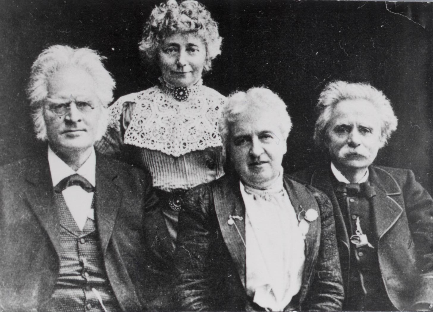 Artist: unknown Date/place: ca. 1904, Aulestad/Norway Subject: from the left; Bjørnstjerne Bjørnson, Nina Grieg (standing), Karoline Bjørnson and Edvard Grieg Medium: unknown Notes: none Persistent URL: Original belongs to the Edvard Grieg Archives at Bergen Public Library